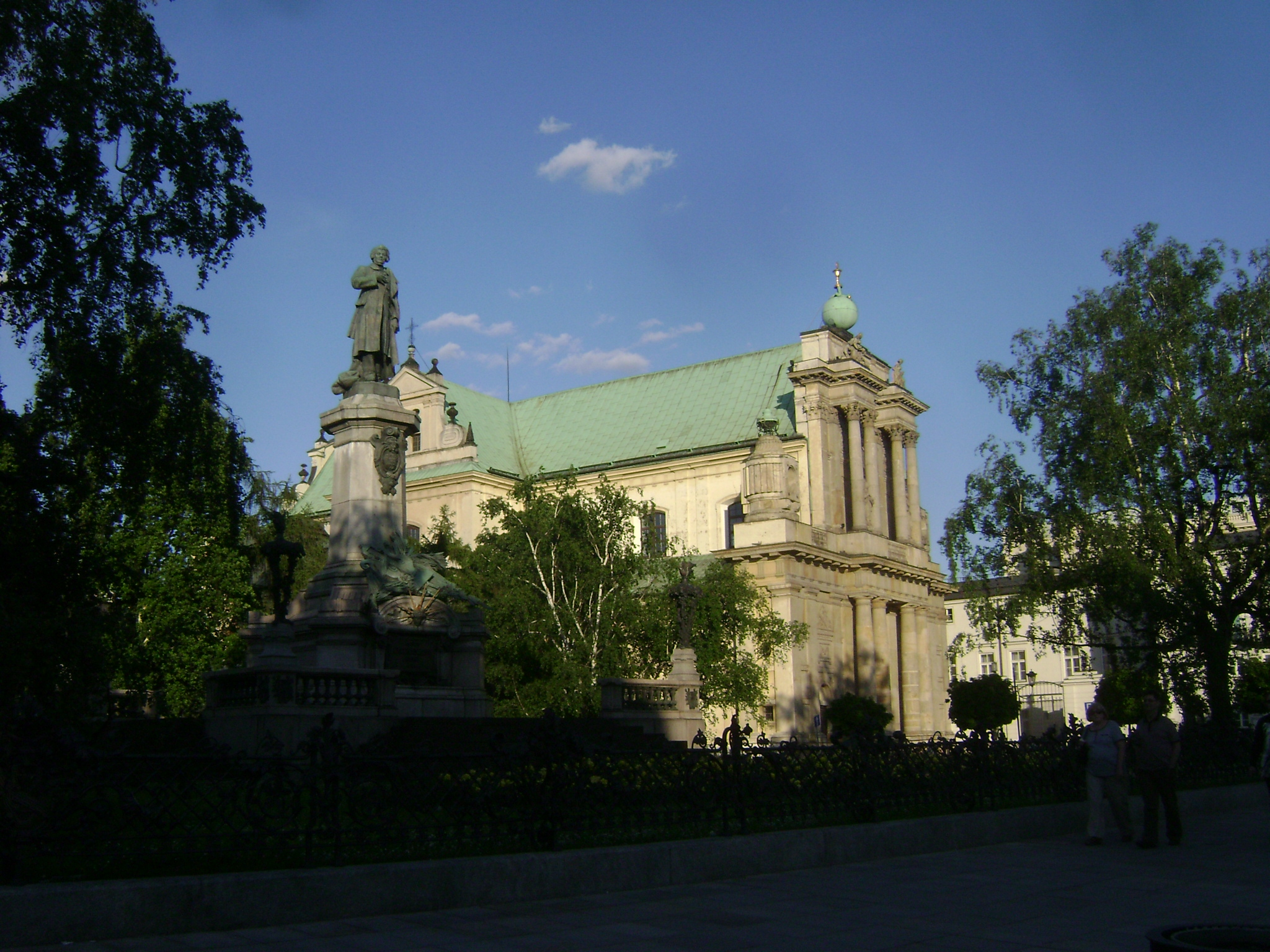 Poland. Warsaw. Śródmieście